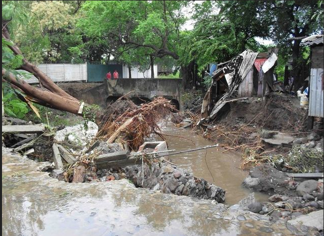 Desbordamiento del río.